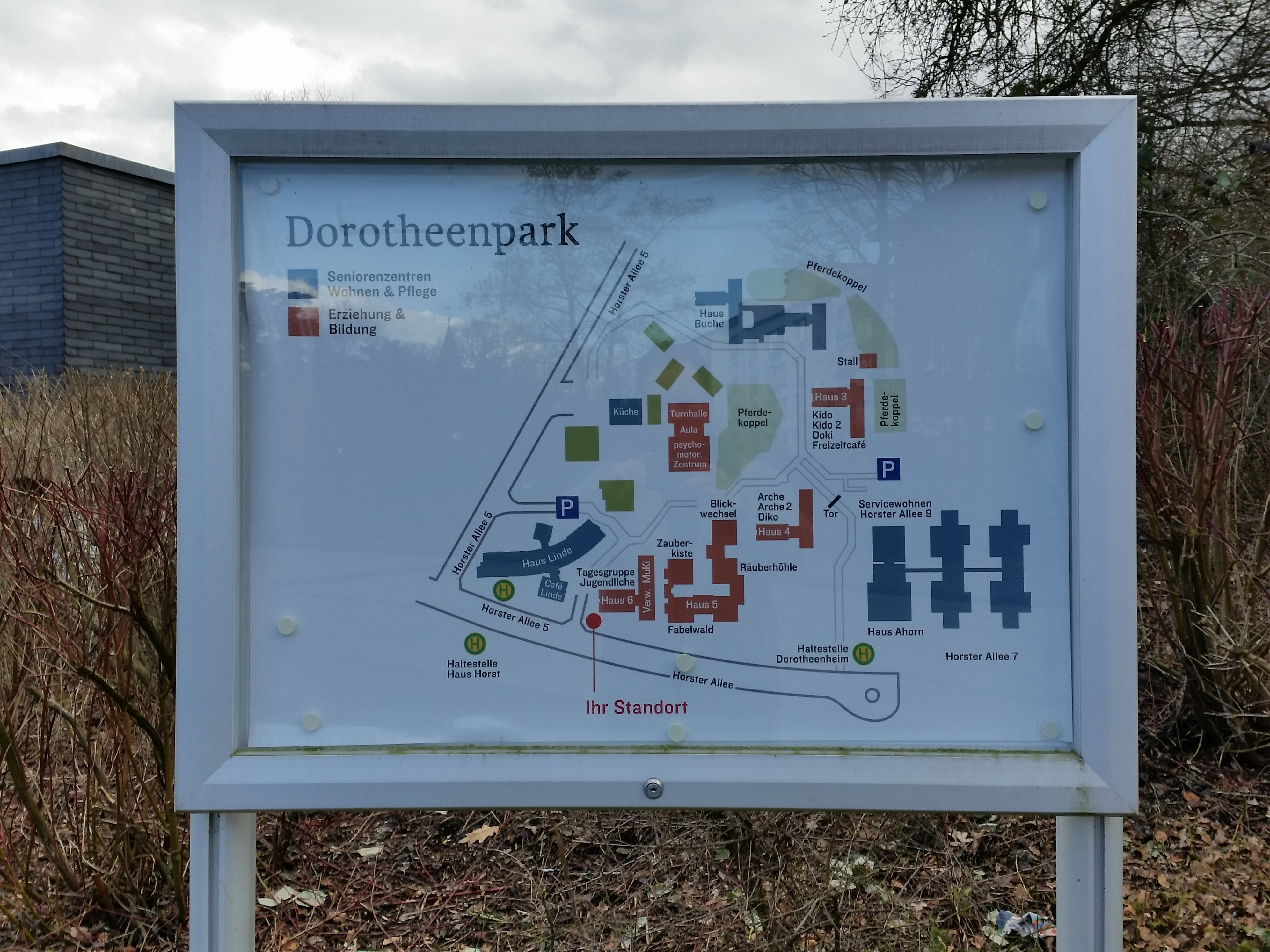 Graf Recke Stiftung, Campus Hilden, Hilden, 2017.